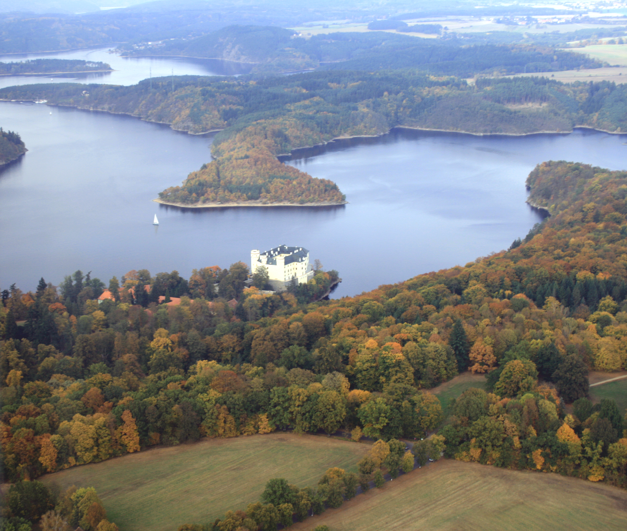 Air photo of Orlík Chateau on Orlík dam on Vltava river, the Czech Republic